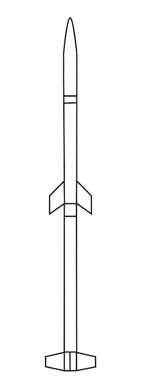 Fulmar rocket shape.